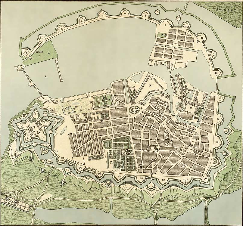 Map of Copenhagen made by J.F. Arnoldt January 1728.